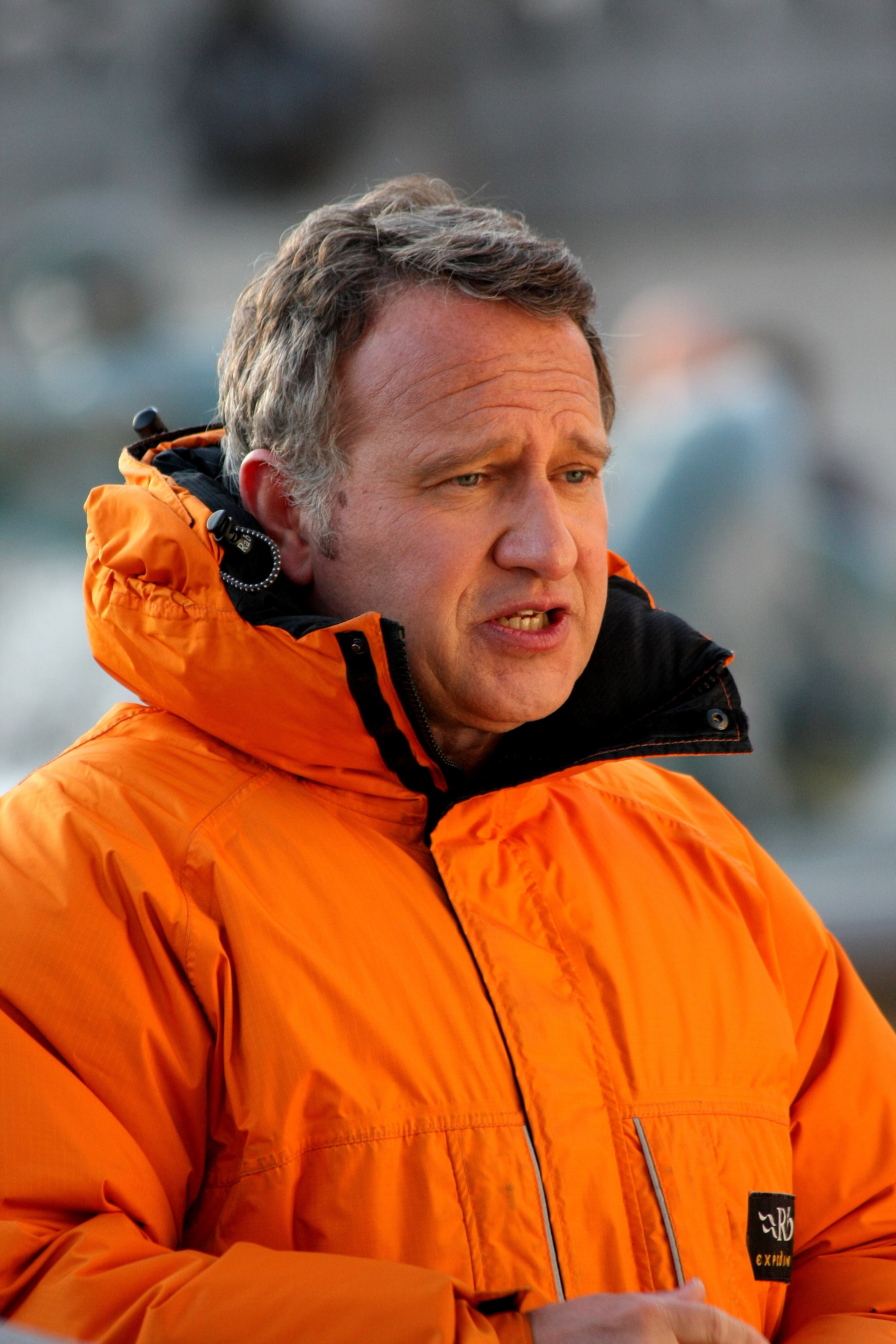 Peter Cockroft in Trafalgar Square during a weather broadcast for BBC London News.